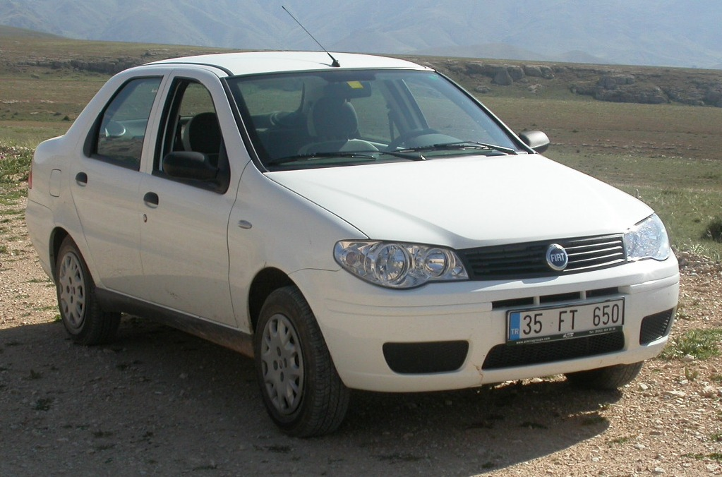 Fiat Albea Mk2 white car in Turkey.